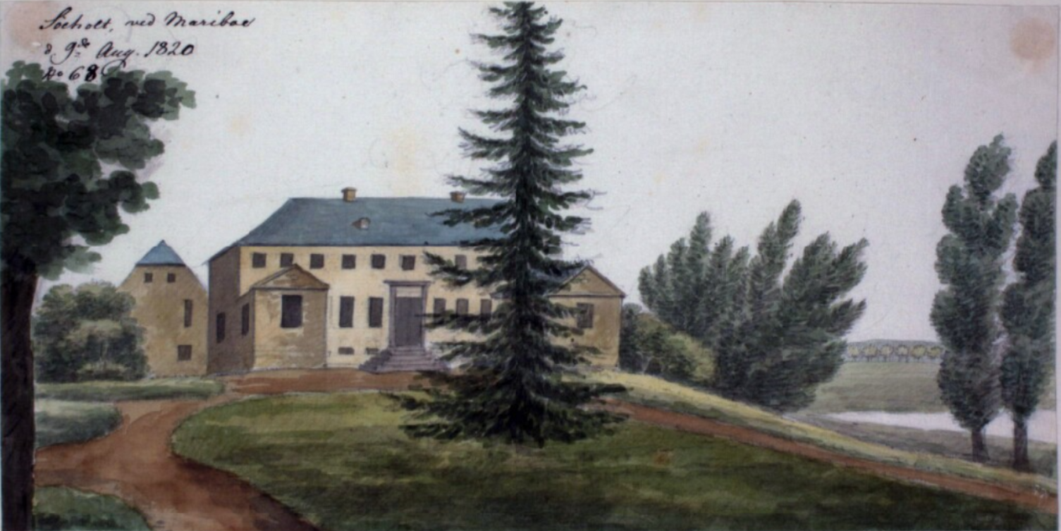 Söholt, ved Mariboe d. 9. Aug. 1820. No. 68